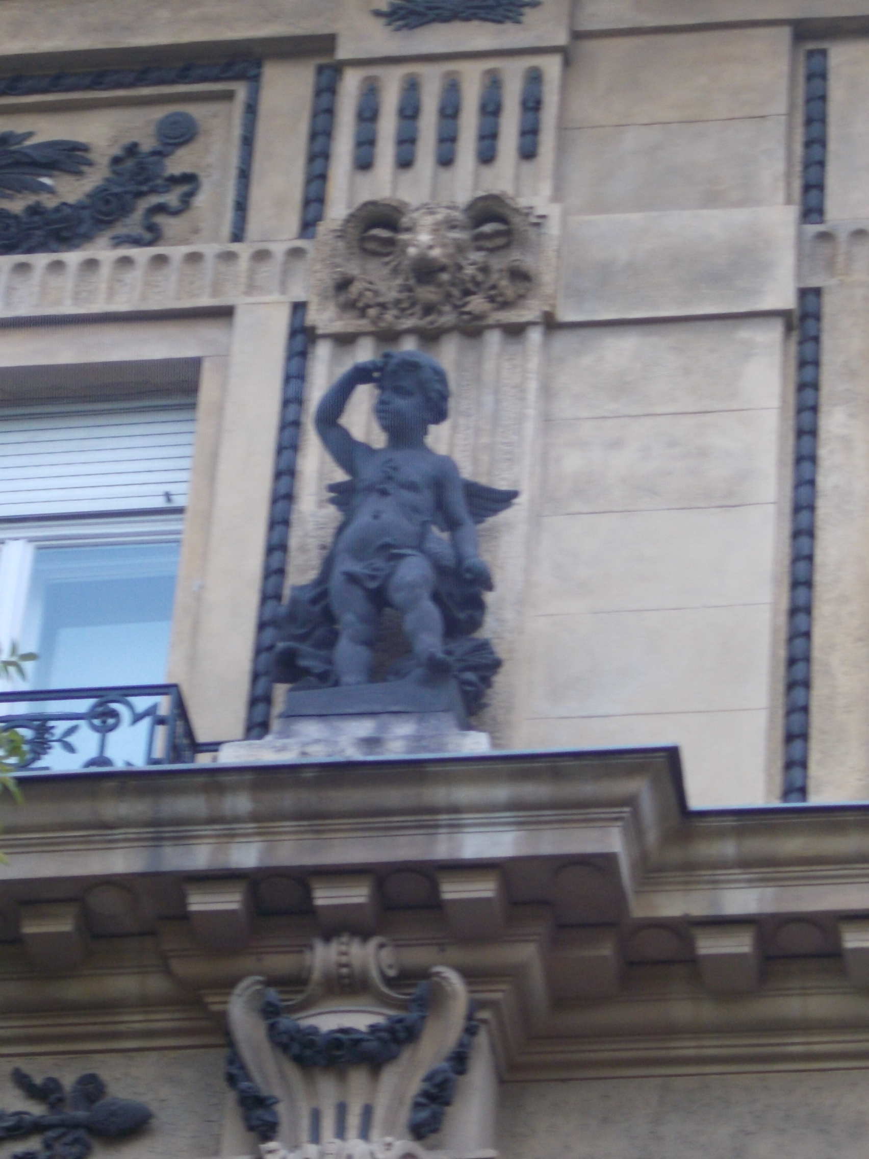 Benczur House. Post Culture House, former Egyedi palace. Architect: Oszkár Marmorek . It was built between 1896-97. Main facade decoration by Karl Waschmann. Remodelled in 1930, restored in 1990-91.- Budapest District VI., Hungary